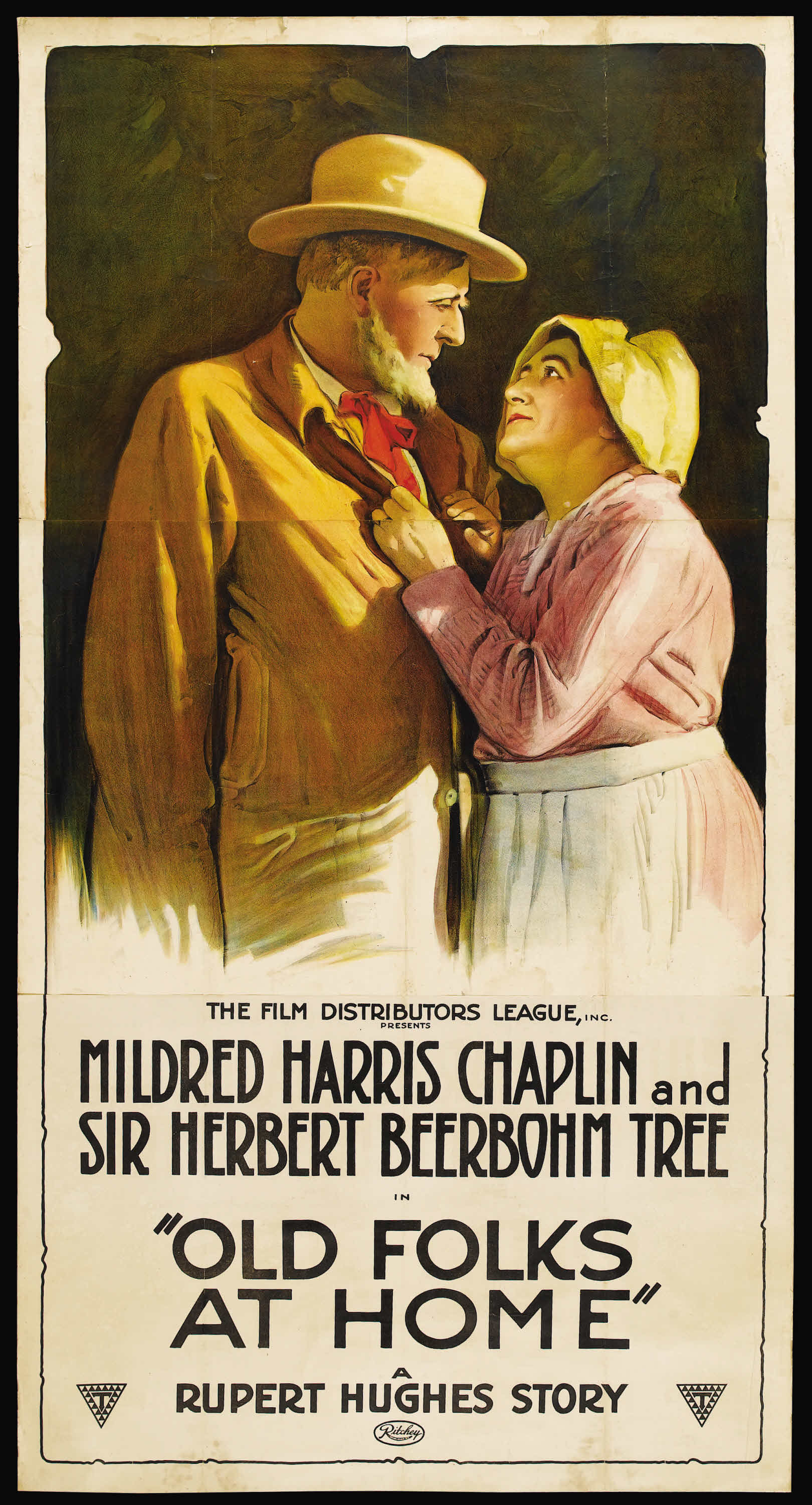 Poster for the 1921 reissued of the American film The Old Folks at Home (1916). The film was reissued in 1921 after Mildred Harris became a star and married Charlie Chaplin.